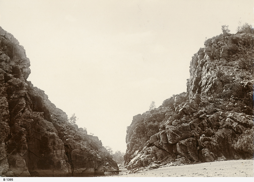 Emily Gap approx. 1900. 8km East of Alice Springs